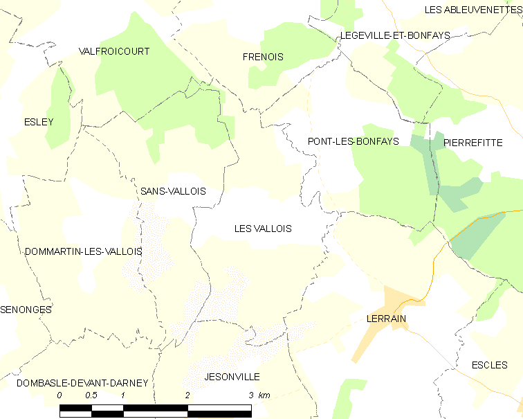 Map of French municipality Les Vallois